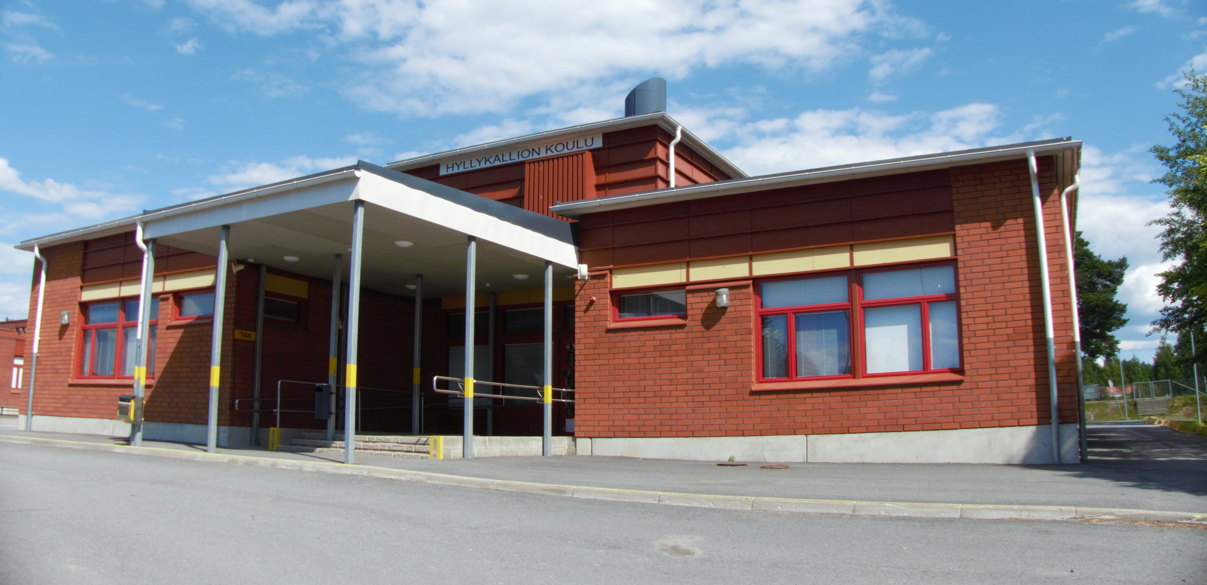 Hyllykallio school in Seinäjoki